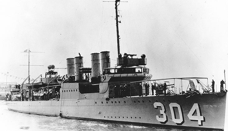 The U.S. Navy destroyer USS Farquhar (DD-304) in harbor, circa 1923-1930.